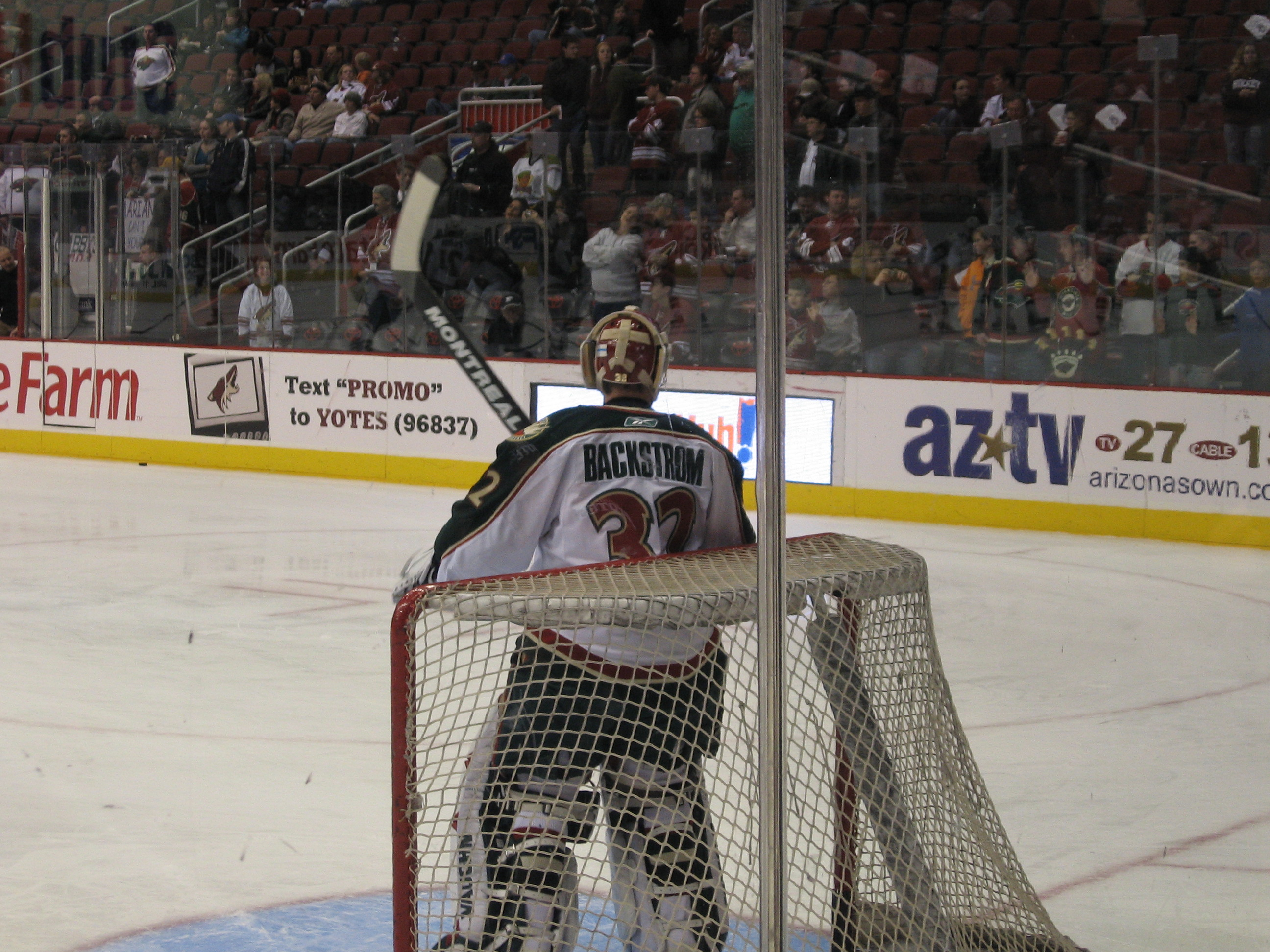 Niklas Backstrom at Arena